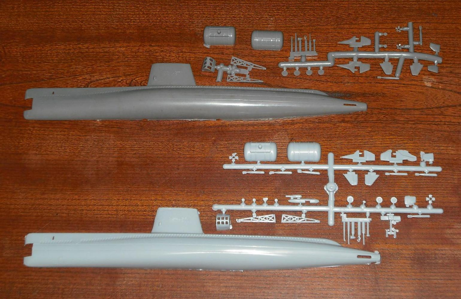 1/300 scale USS Nautilus by Marusan and Revell.